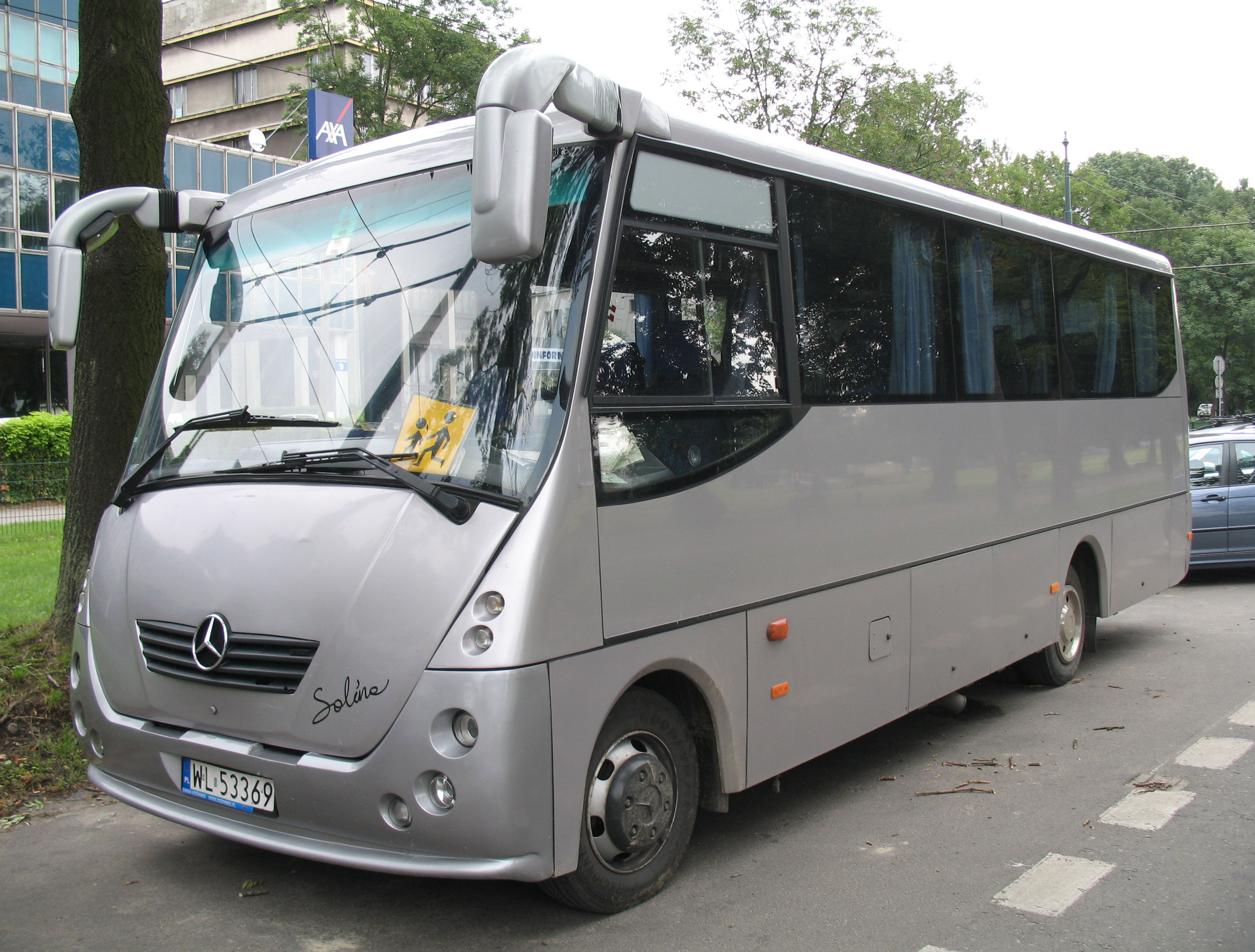 Autosan H7-10.06MB Solina bus in Kraków, Poland. Built 2006, Jaszek Koźminek operator.